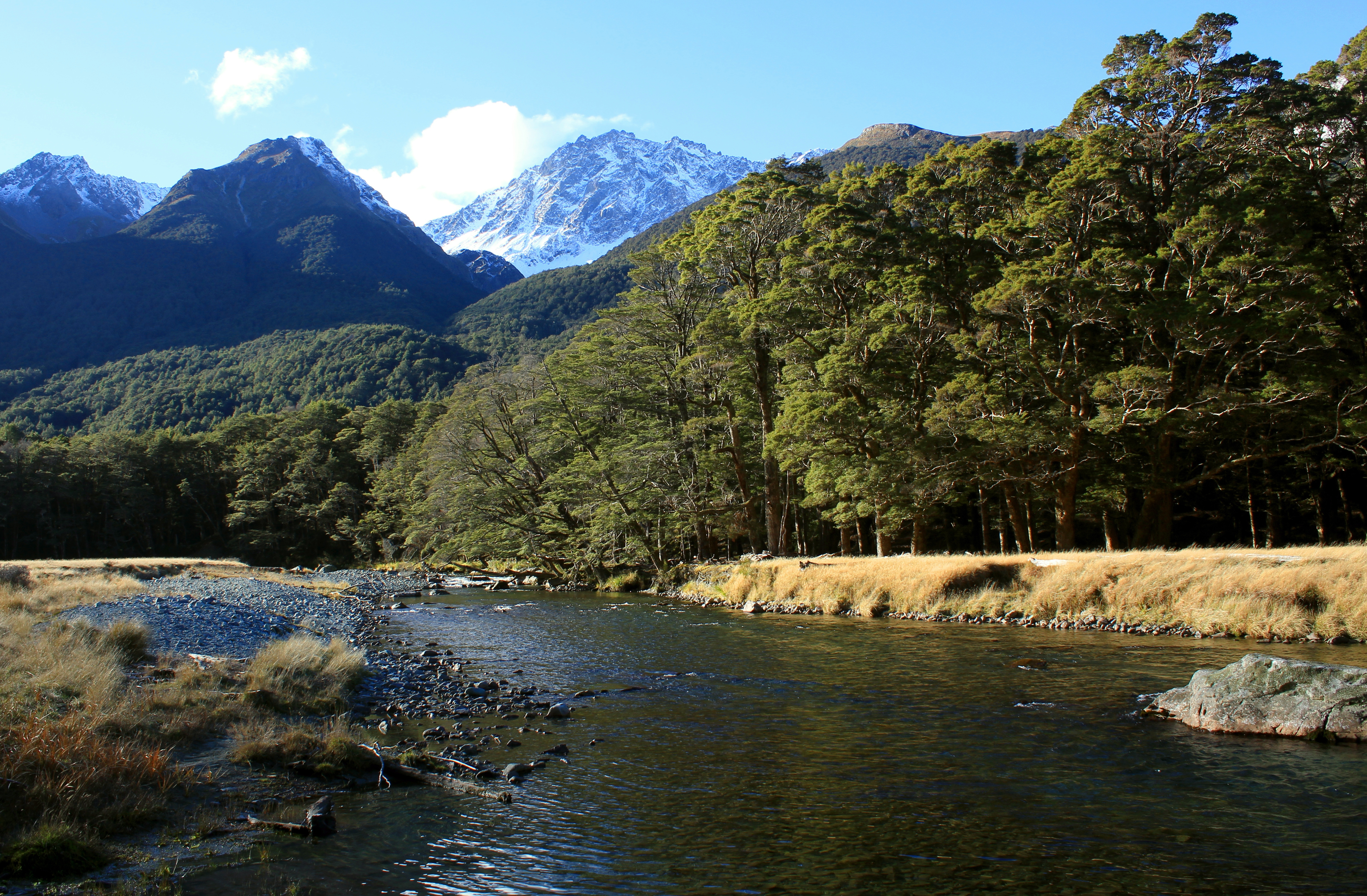 The Caples River, Otago, New Zealand